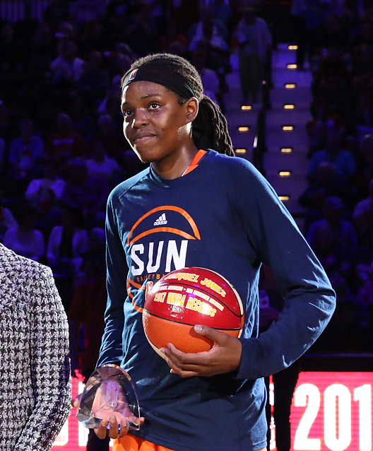 Jonquel Jones accepts the award for 2017 WNBA Most Improved Player